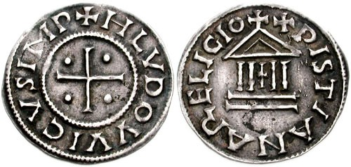 CAROLINGIANS. Louis I, dit le Pieux (the Pious). 814-840 AD. AR Denier (20mm, 1.65 g, 1h). Uncertain mint. Struck 822-840 AD. + HLVDOVVICVS IMP, cross; pellet in each quarter + XPISTIANA RELIGIO, temple; cross within.